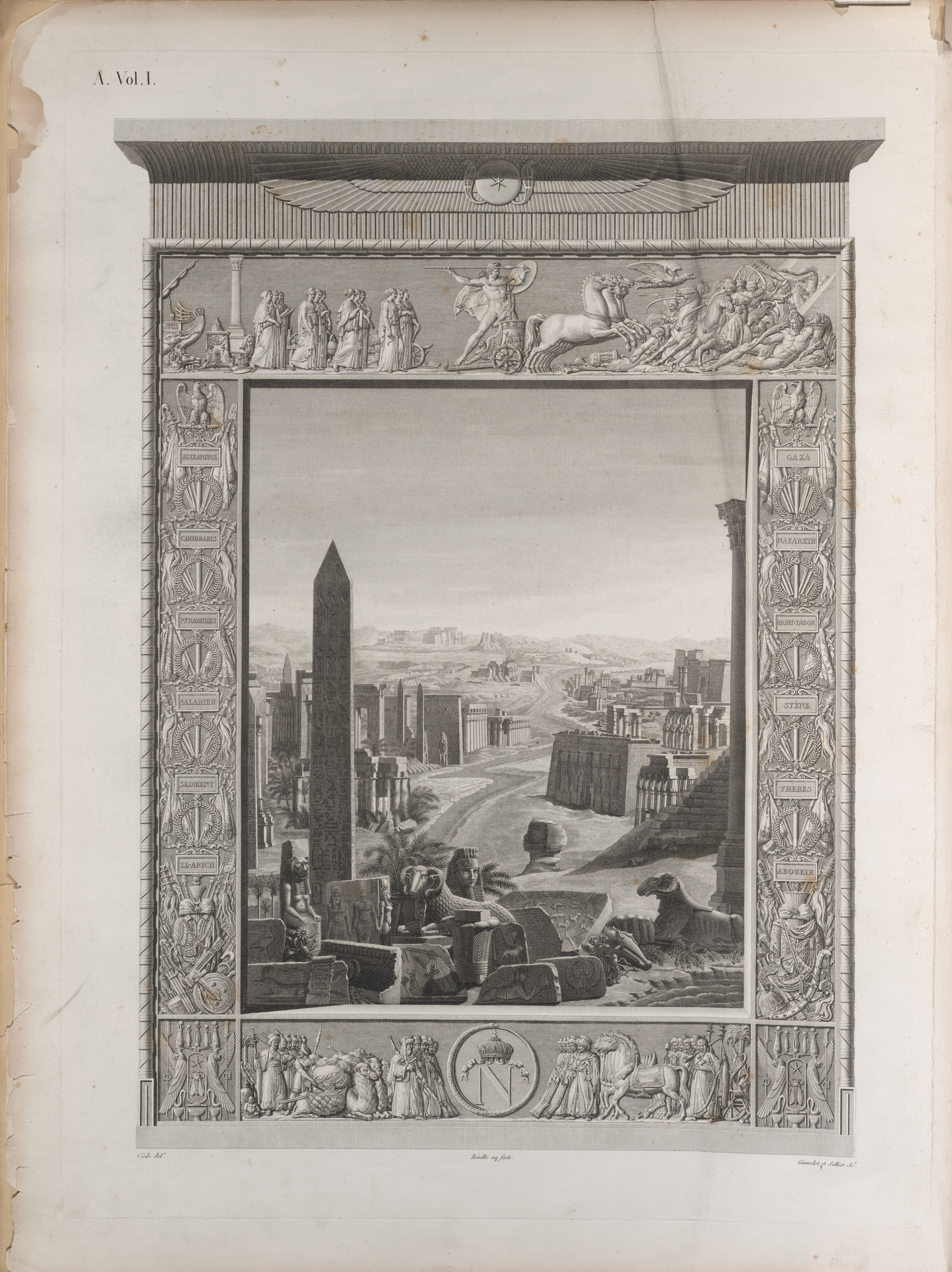 Frontispiece, vol. 1